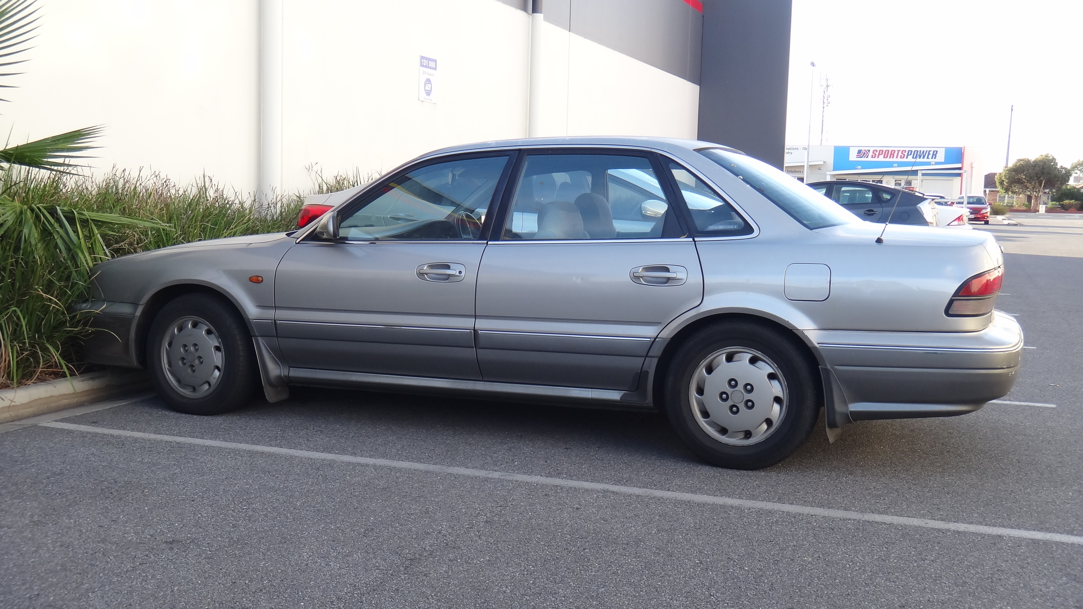 The Verada was the name given to these mid-size upmarket Mitsubishi sedans and wagons, while the more basic sedans and wagons were called Magna. The cars were built in Australia and exported to other markets under various different names like Sigma in the UK and Diamante in the US.